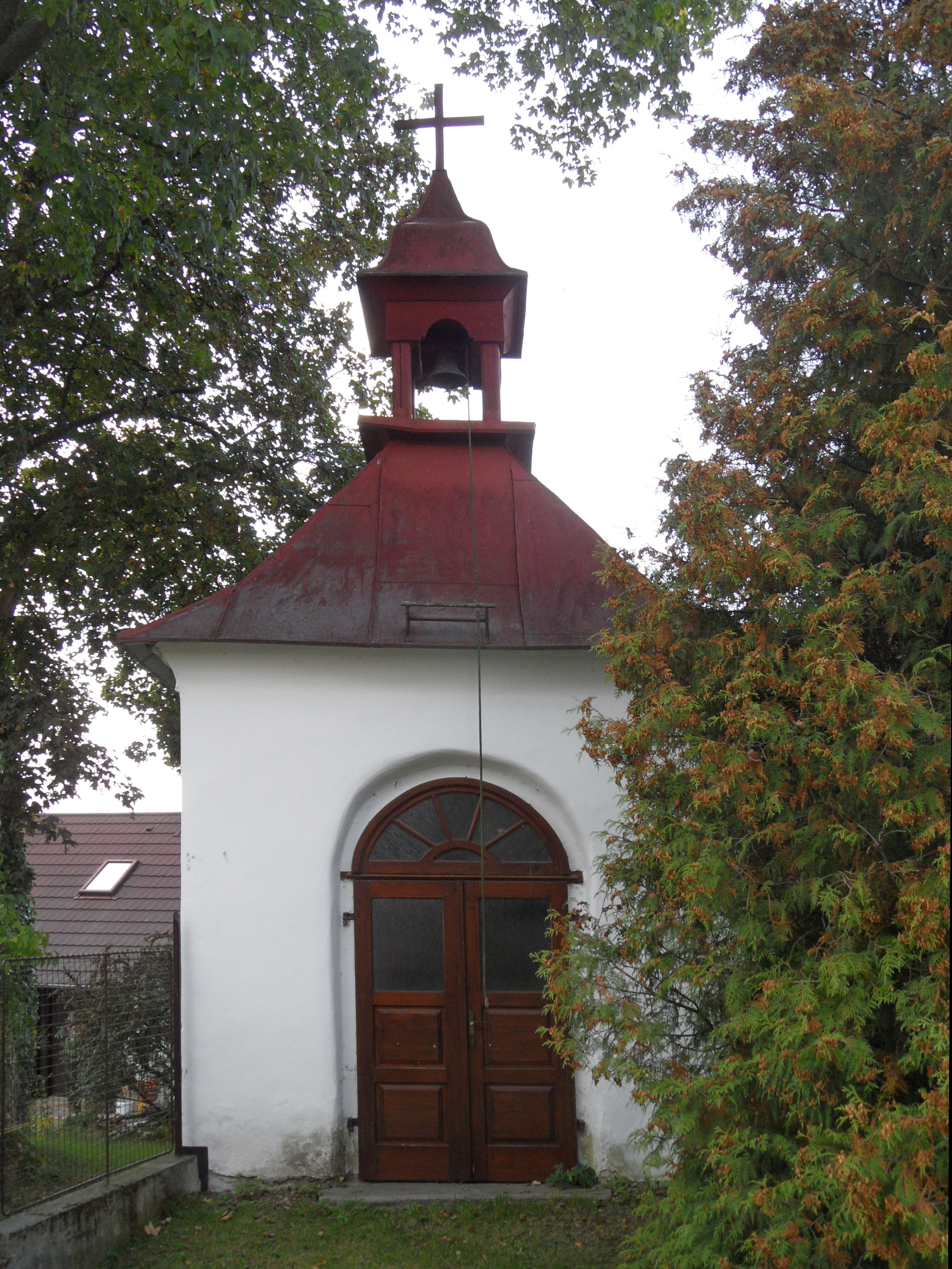 Krasoňovice (Zbraslavice) A. Chapel: Detail, Kutná Hora District, the Czech Republic.